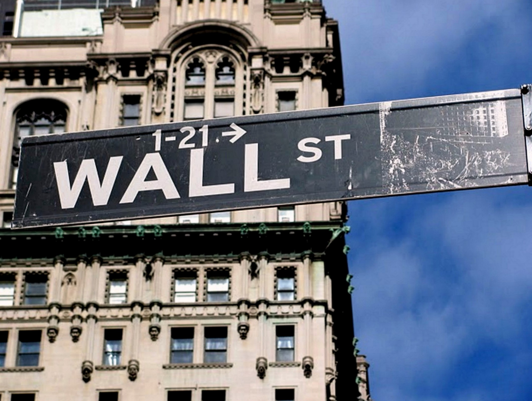 Sign indicating 1-22 Wall St; Brodway crossing Wall St, NYC.